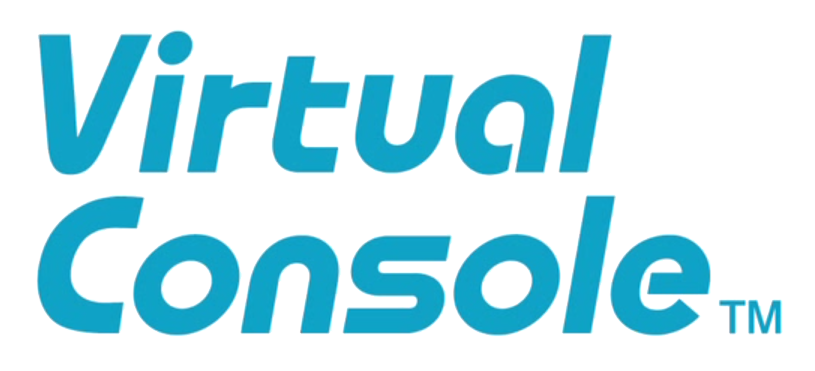 The logo of the Virtual Console service on Wii U.